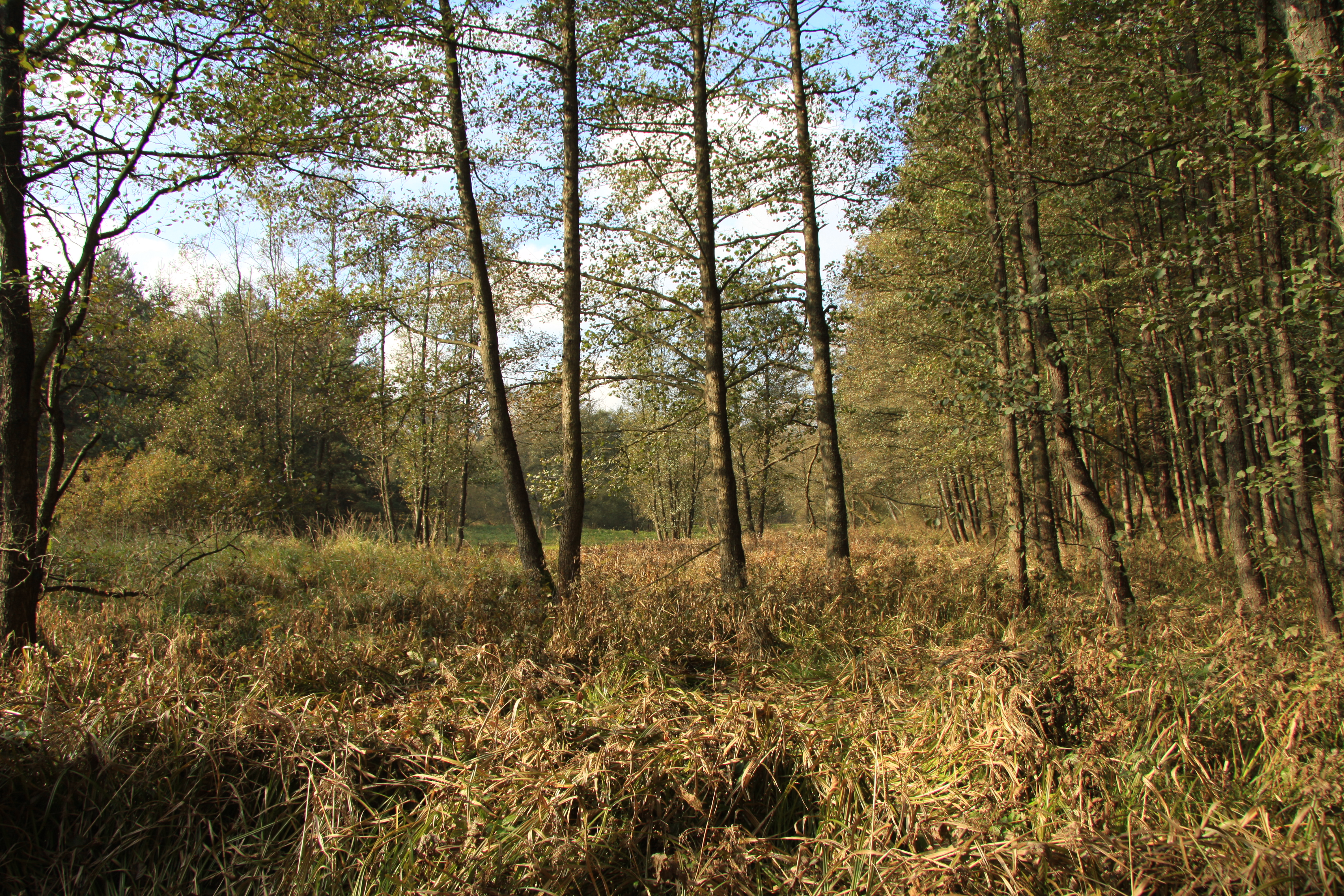 Nature reserve Dobročkovské hadce near Dobročkov village partly lying on the area of CHKO Blanský les, Prachatice District, Czech Republic Project: Chráněná území.